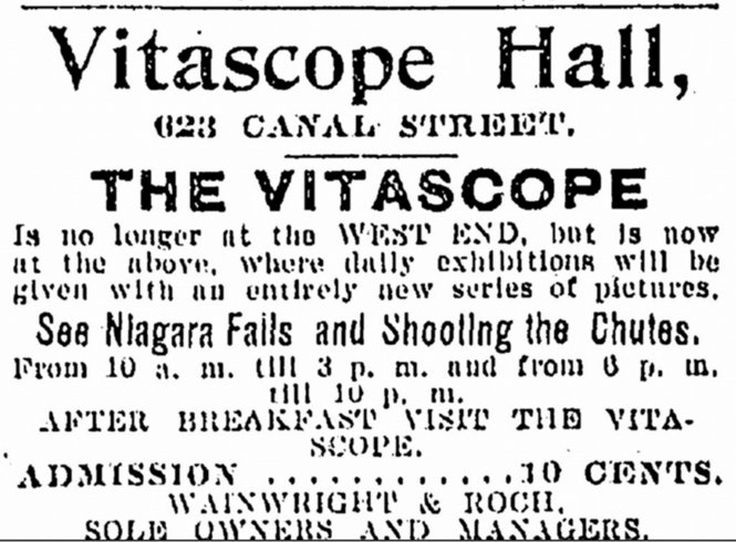 1896 advertisement for "Vitascope Hall" on Canal Street, New Orleans, Louisiana, USA. Ad notes the "Vitascope" (early movie projector) is at 623 Canal Street, not earlier location at West End (amusement park) and an "entirely new series of pictures" will be shown. "Vitascope Hall" has since been called the world's first movie theater, as location in business only showing motion pictures.